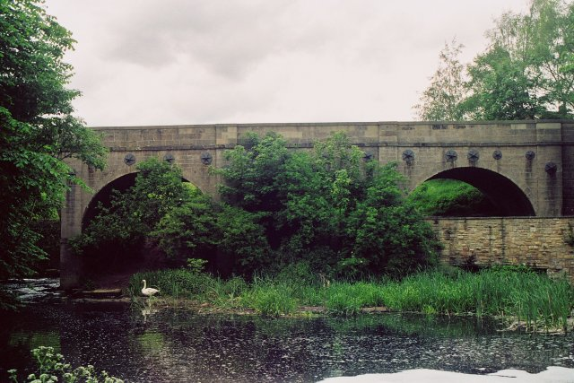 Kings Mill Viaduct. Dating from 1817, Kings Mill Viaduct carried the Mansfield and Pinxton tramway across a small stream. The main line (still open as part of the Robin Hood line) was diverted round this section of the tramway; the viaduct now carries a footpath.